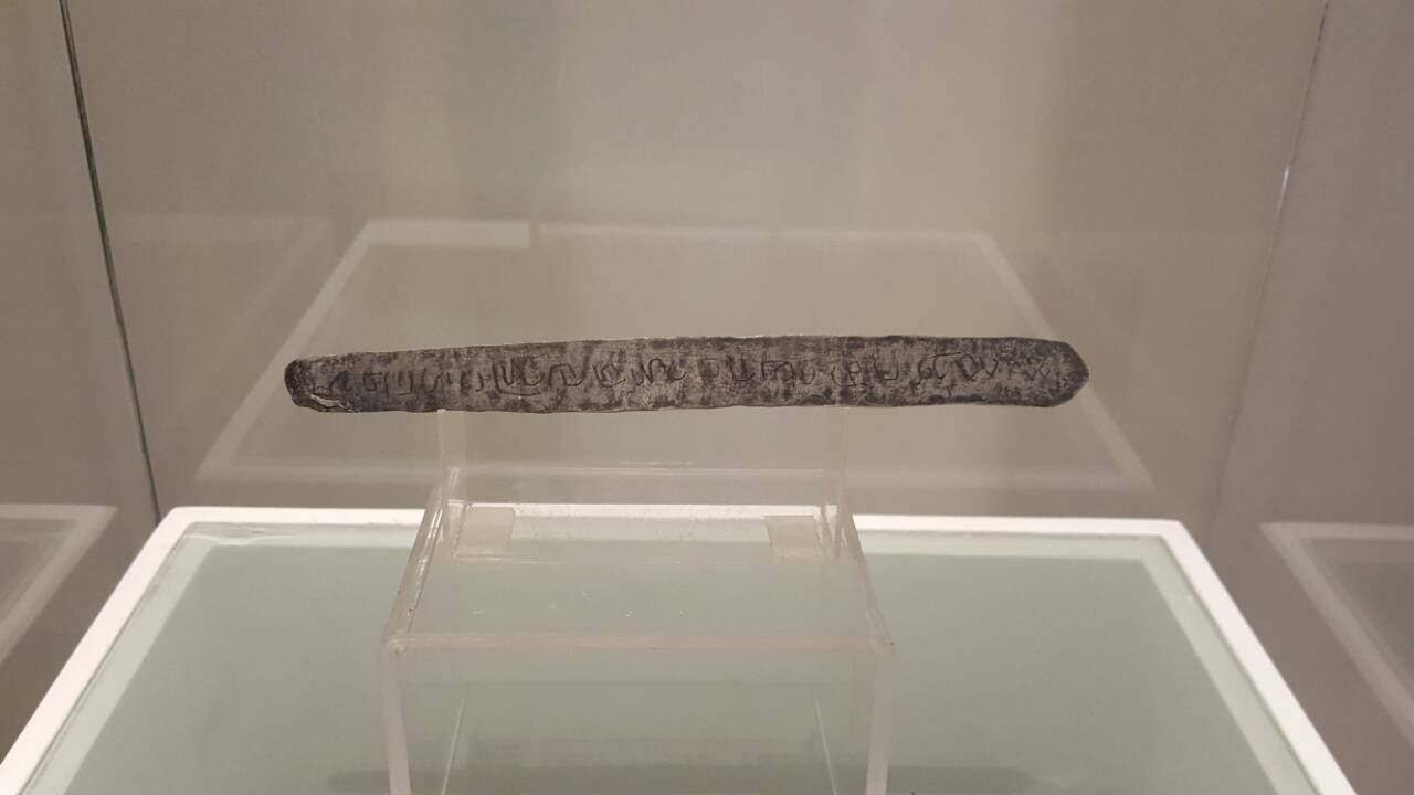 The Butuan Silver Paleograph, in display at the National Museum of Anthropology in Manila. Filipino: Ang Paleograpong Pilak ng Butuan, natuklasan noong dekada '70 sa Butuan na makikita ngayon sa Pambansang Museo ng Antropolohiya sa Maynila.